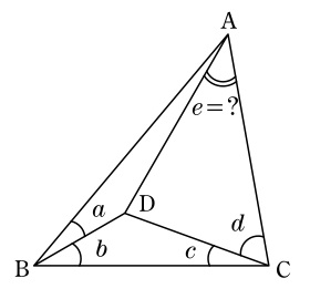 Problem of a triangle with integer angles